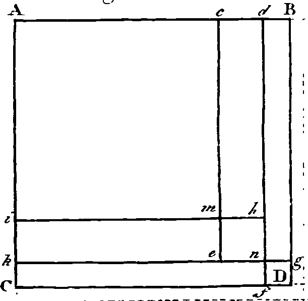 Fleuron from book: A rational and practical treatise of arithmetic. (In two parts.) Containing all that is necessary to be known in this art, ... To which is added, ... the reason and demonstration of every rule and operation, ... By W. Cockin, ...